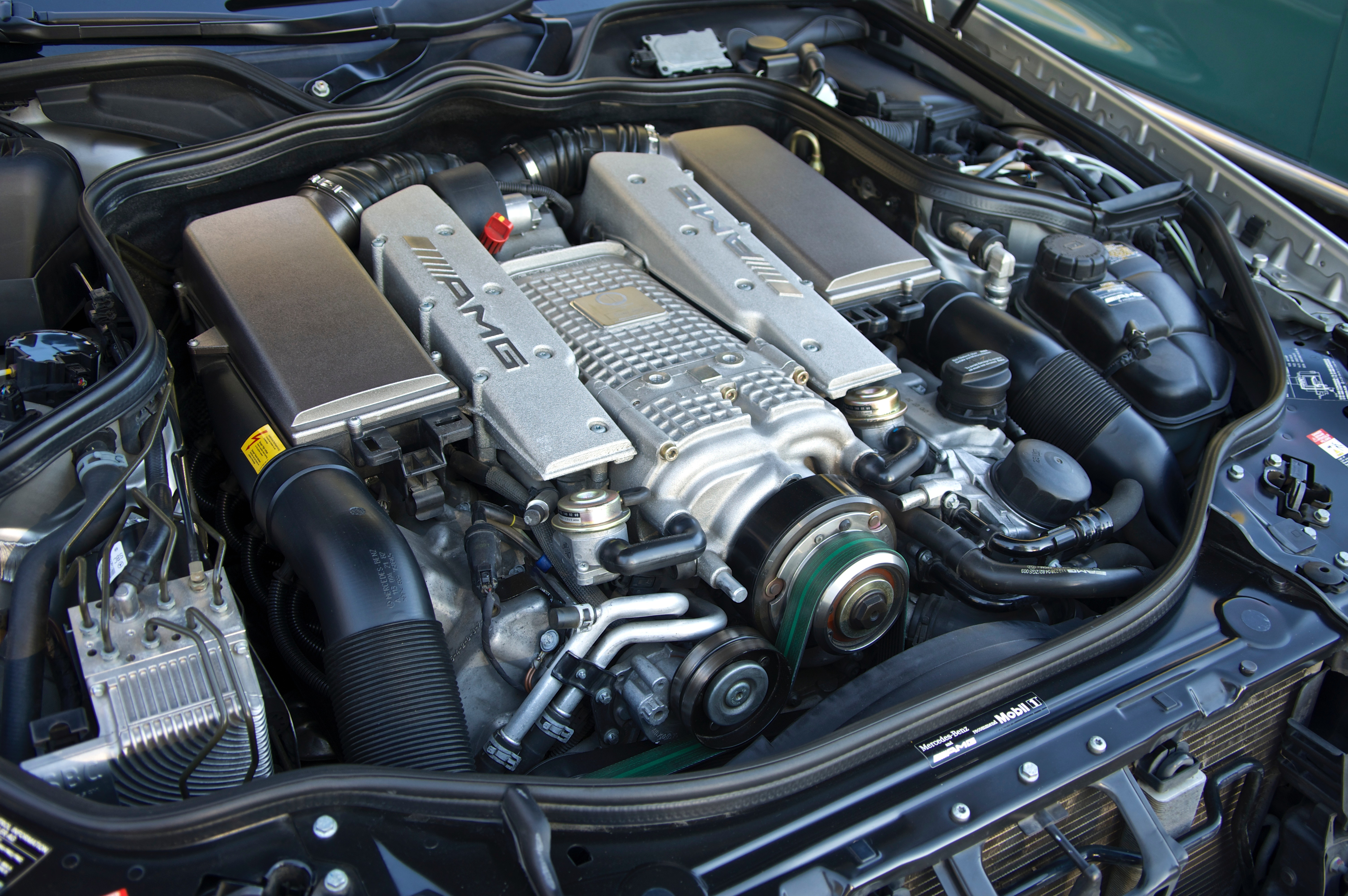 Engine of a 2004 Mercedes-Benz E55 AMG